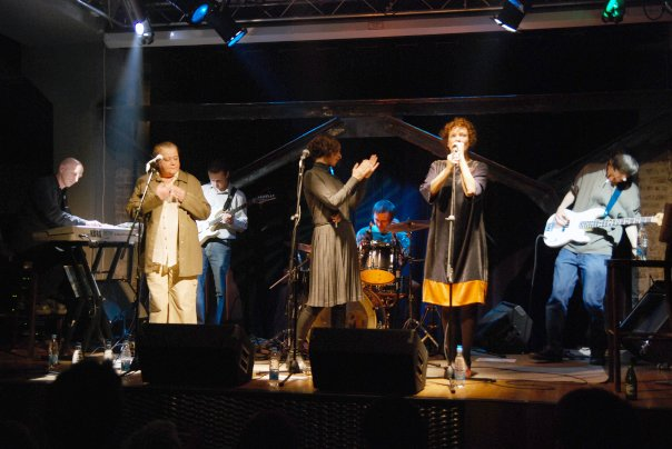 Colibri_(band)